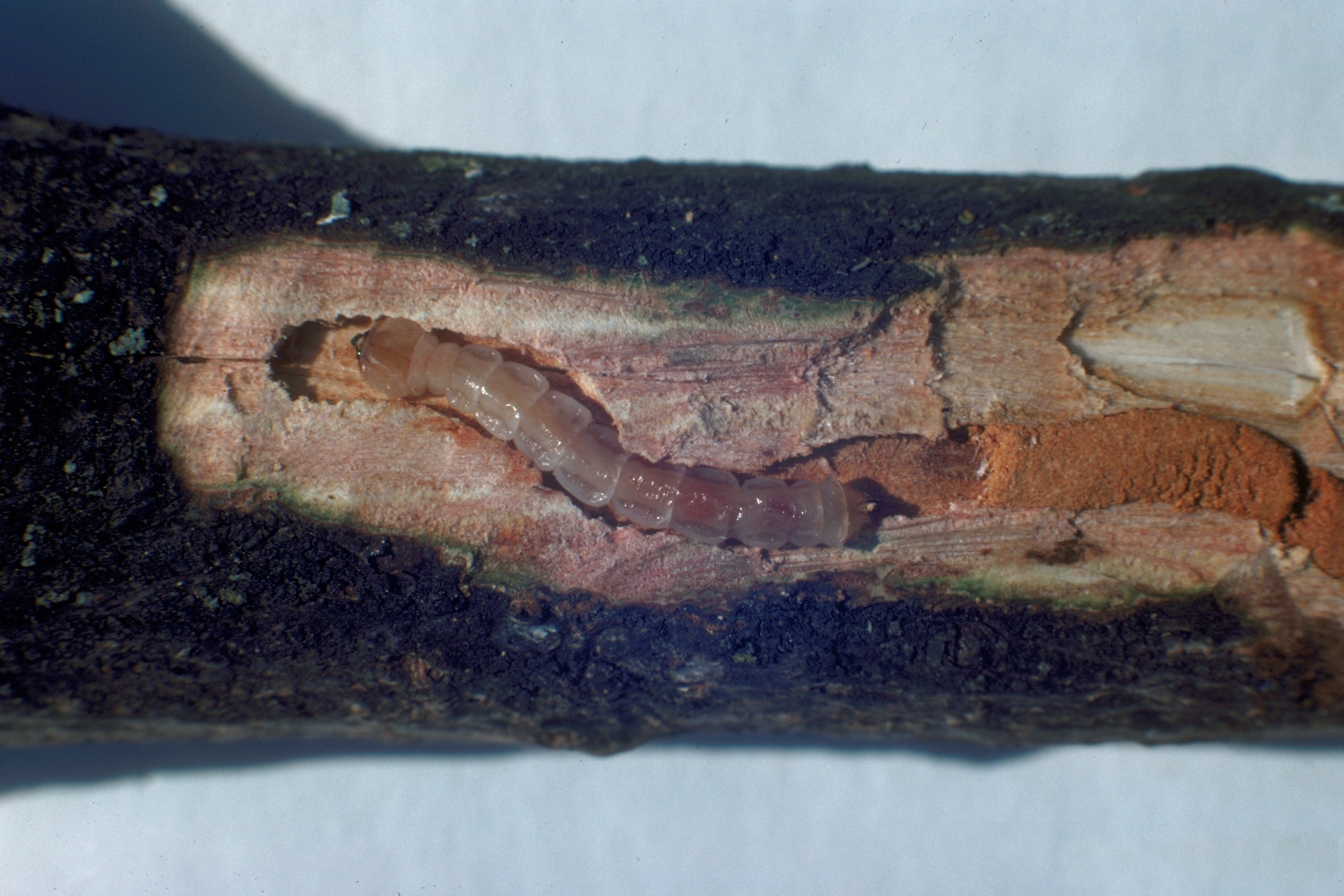 Agrilus arcuatus torquatus Host: pecan Carya illinoinensis (Wangenh.) K. Koch Common Name: hickory spiral borer Photographer: James Solomon, USDA Forest Service, United States Descriptor: Larva(e) Description: and gallery Image taken in: United States